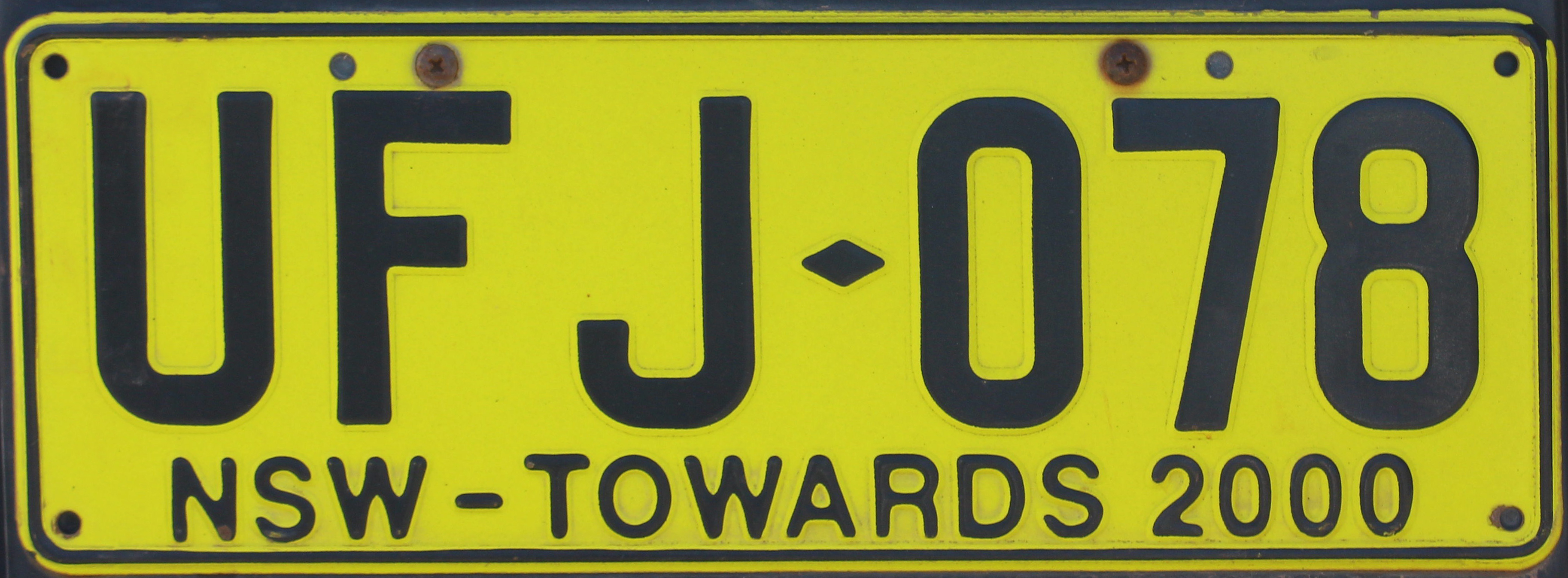 1994 New South Wales registration plate UFJ♦078 Towards 2000 registered to a Mitsubishi Pajero. Very clean plate, best I've seen in this condition.